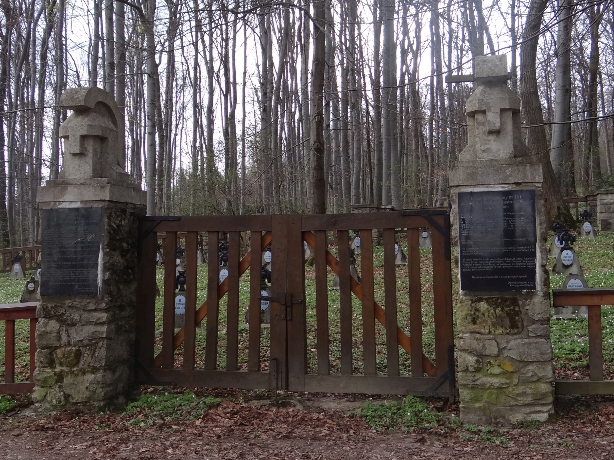 World War I Cemetery nr 187 in Lichwin